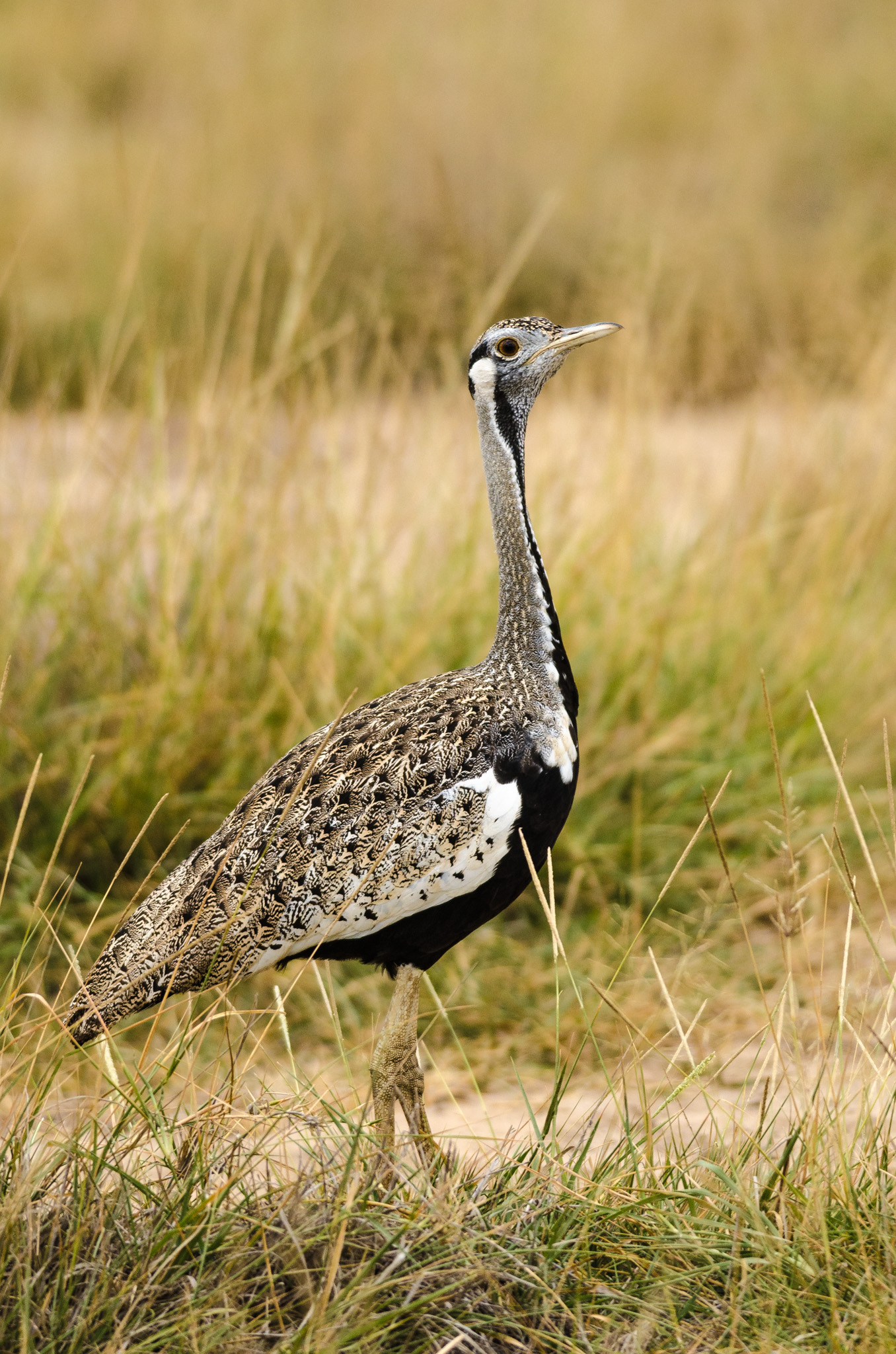 Shot in Amboseli National Park, Kenya